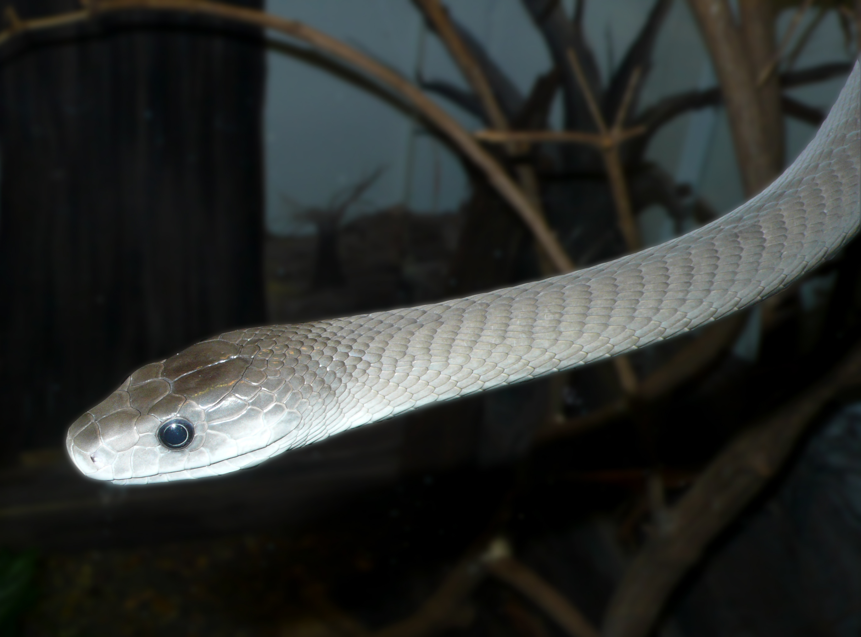 Black mamba (Dendroaspis polylepis)